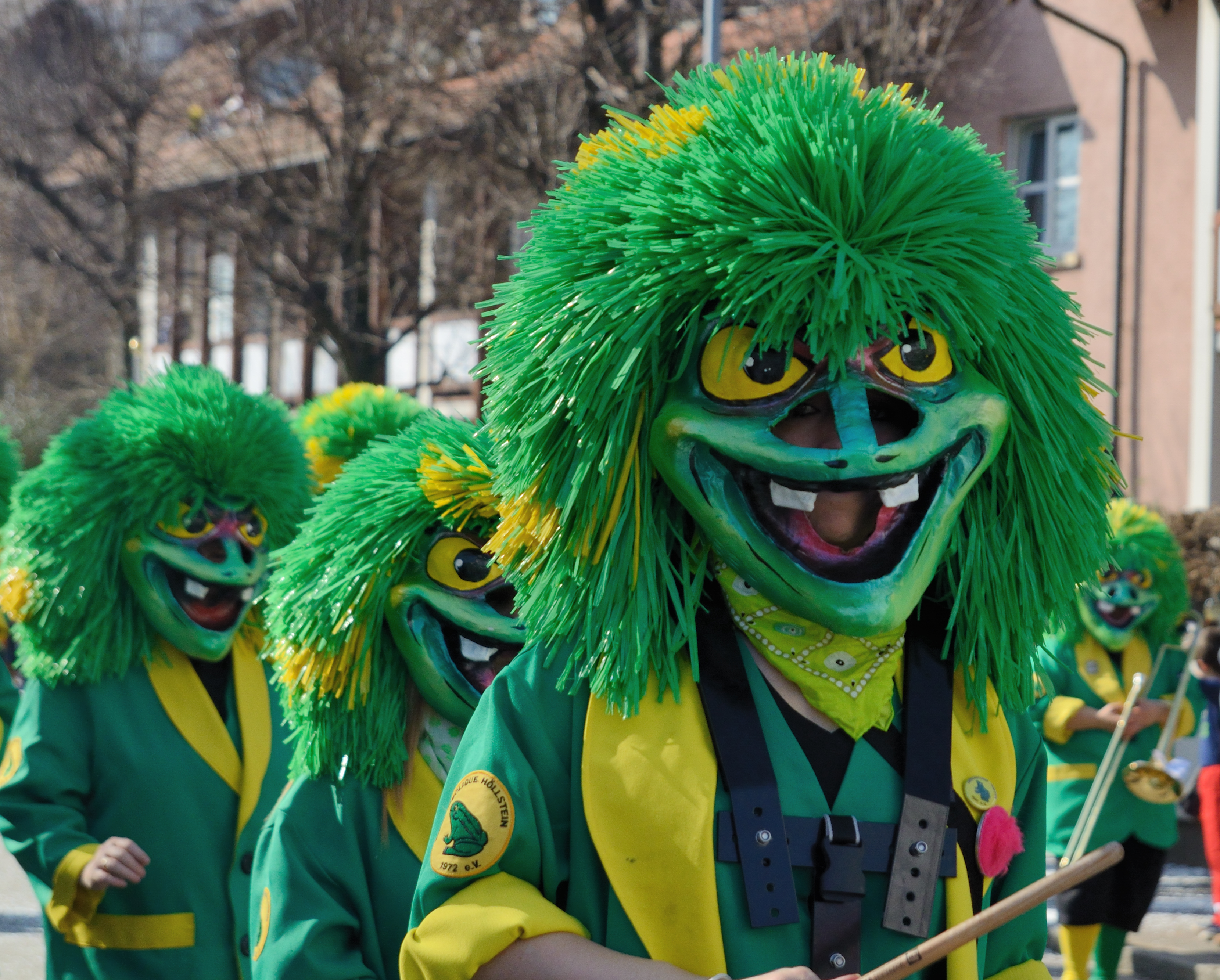 Carnival in Hauingen (Lörrach), Germany